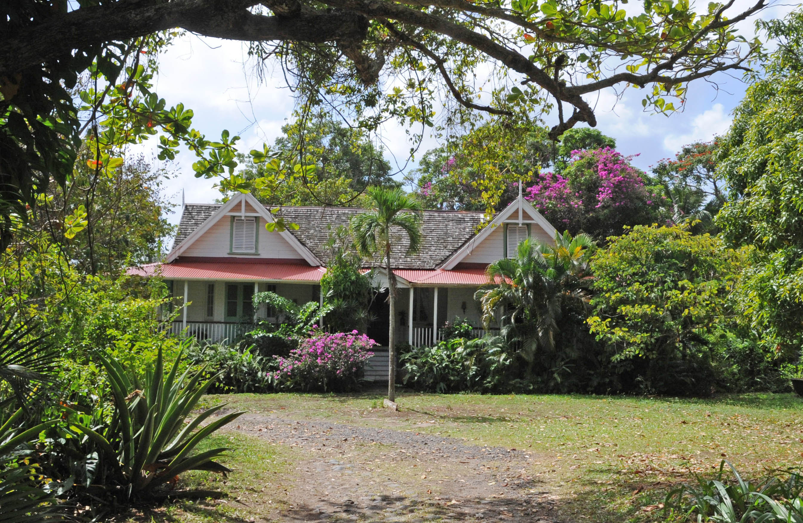 AN OLD 18TH CENTURY SUGAR MILL PLANTATION NOW CONVERTED INTO GUEST HOUSES WITH SEVERAL PRIVATE BEACHES. THIS IS THE MAIN HOUSE OF THE ESTATE